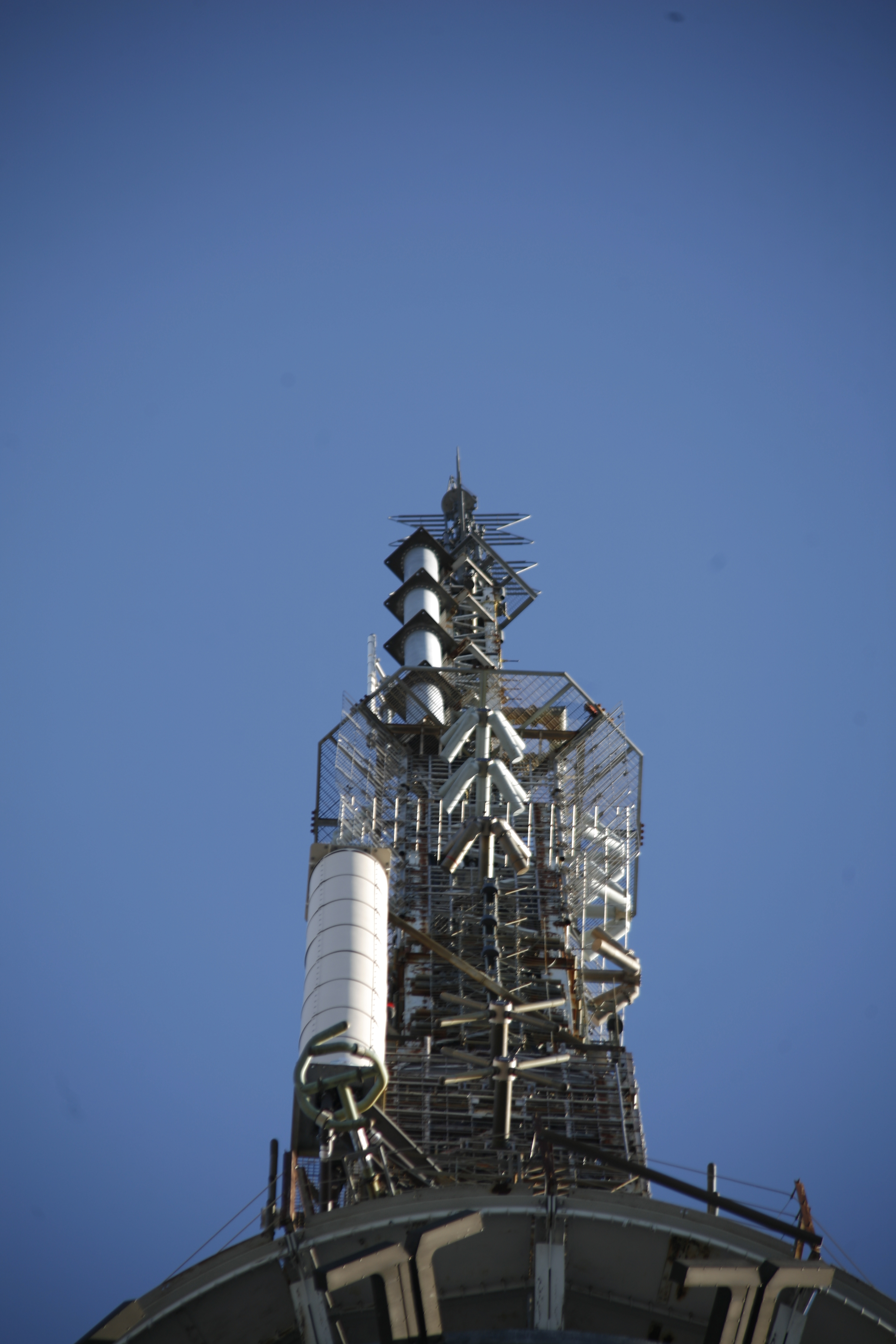 Atop is an ERI master antenna. The story of its installation is Stations radiating from the top two bays include WQXR/105.9, WNYC-FM/93.9, WLTW/106.7, WSKQ/97/9, WXNY/96.3, WWFS/102.7, WEPN/98.7, WBAI/99.5, WBLS/107.5, WWPR/105.1, WHTZ/100.3, WXRK/92.3, WAXQ/104.3 and WKTU/103.5. All are 6kw horizontal and vertical except for WBAI (4.3), WBLS (4.2) and WQXR (.61). WFAN/101.9 uses the bottom gold bay, and produces 6.2kw. Next down is a WPLJ/95.5 auxiliary antenna (6.6kw) and then three stations sharing a two-bay panel antenna: WQHT/97.1, WPLJ/95.5 and WCBS-FM/101.1. All three are 6.7kw. The old Alford can be seen below.